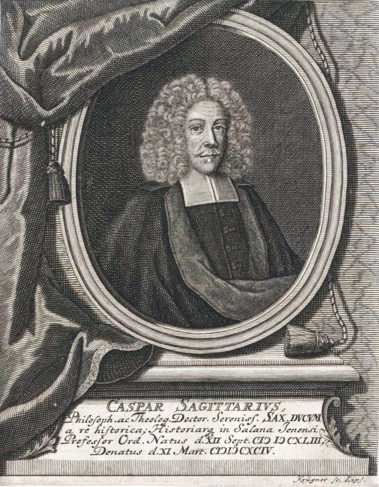 Caspar Sagittarius (1643-1694) german Historian